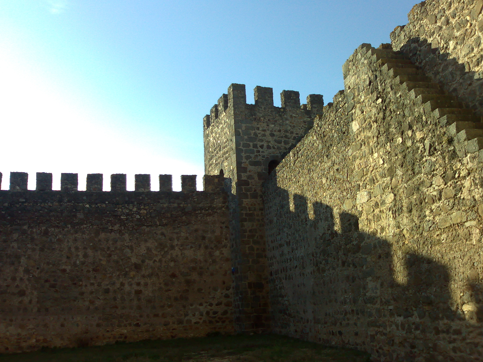 Tower of the Amieira castle, Amieira do Tejo, Nisa, Portugal (the file name is incorrect).